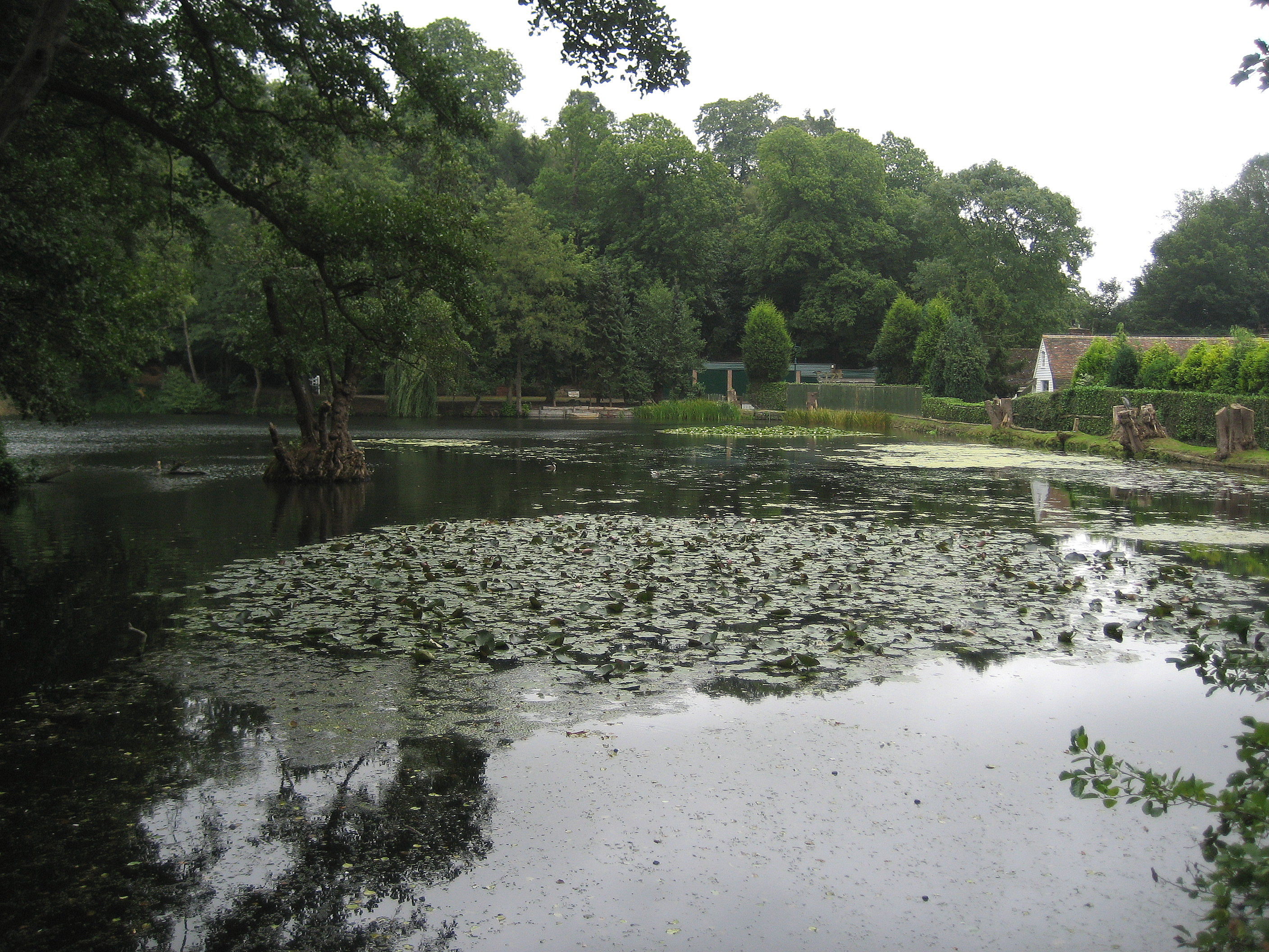 Leigh Place Pond, Godstone